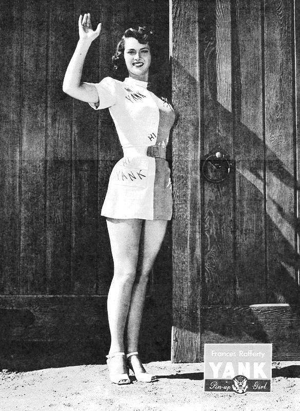 Pin-up photo of Frances Rafferty for the Oct. 12, 1945 issue of Yank, the Army Weekly, a weekly U.S. Army magazine fully staffed by enlisted men.